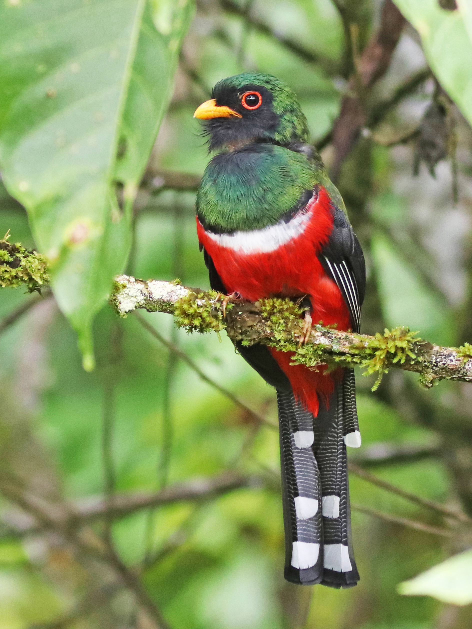 Masked Trogon resting on a branch at San Jorge Eco-lodge Tandayapa, Ecuador